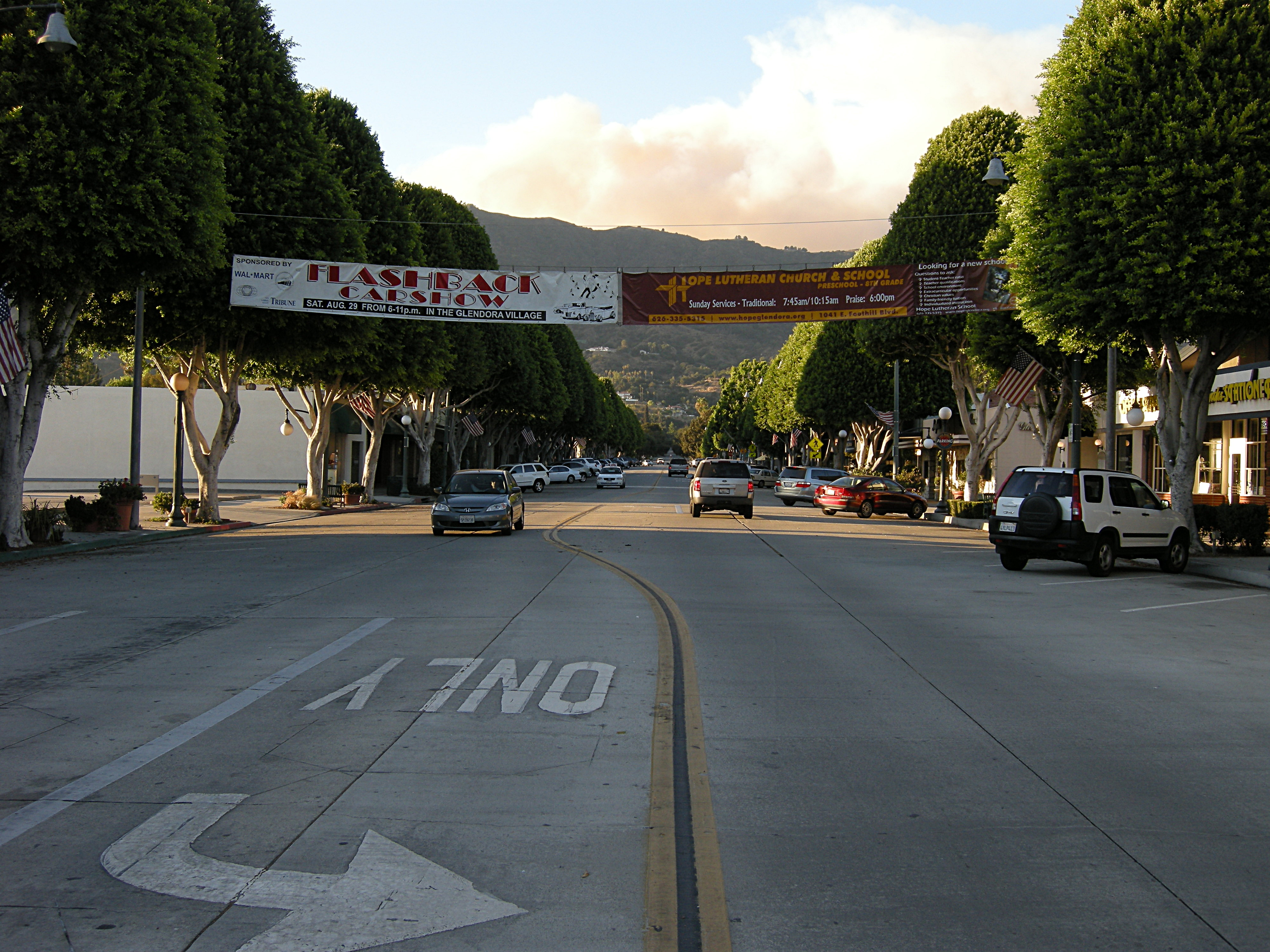 Downtown Glendora, California with Morris Fire Smoke Plume photo by Richard Ellis